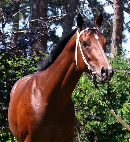 Overdose the hungarian undefeated champion. Owner Zoltan Mikoczy. Overdose a veretlen, tulajdonos Mikóczy Zoltán.